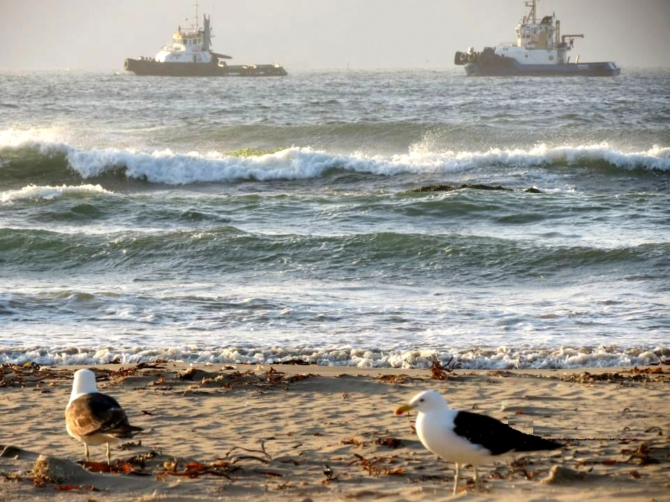 Los Vilos,s beach. Two Leucophaeus scoresbii at sea side.